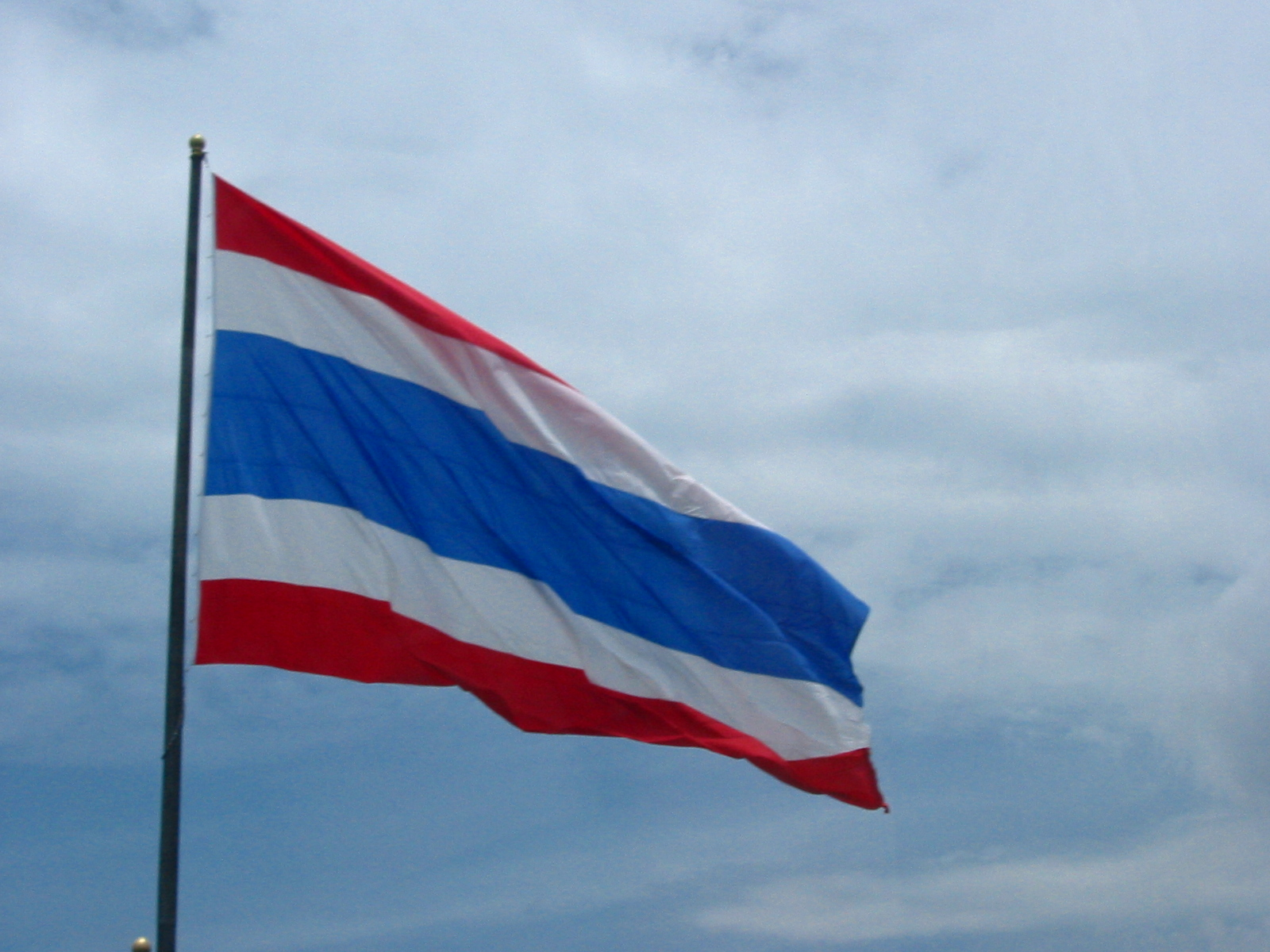 A flag of Thailand on the top of a pole.